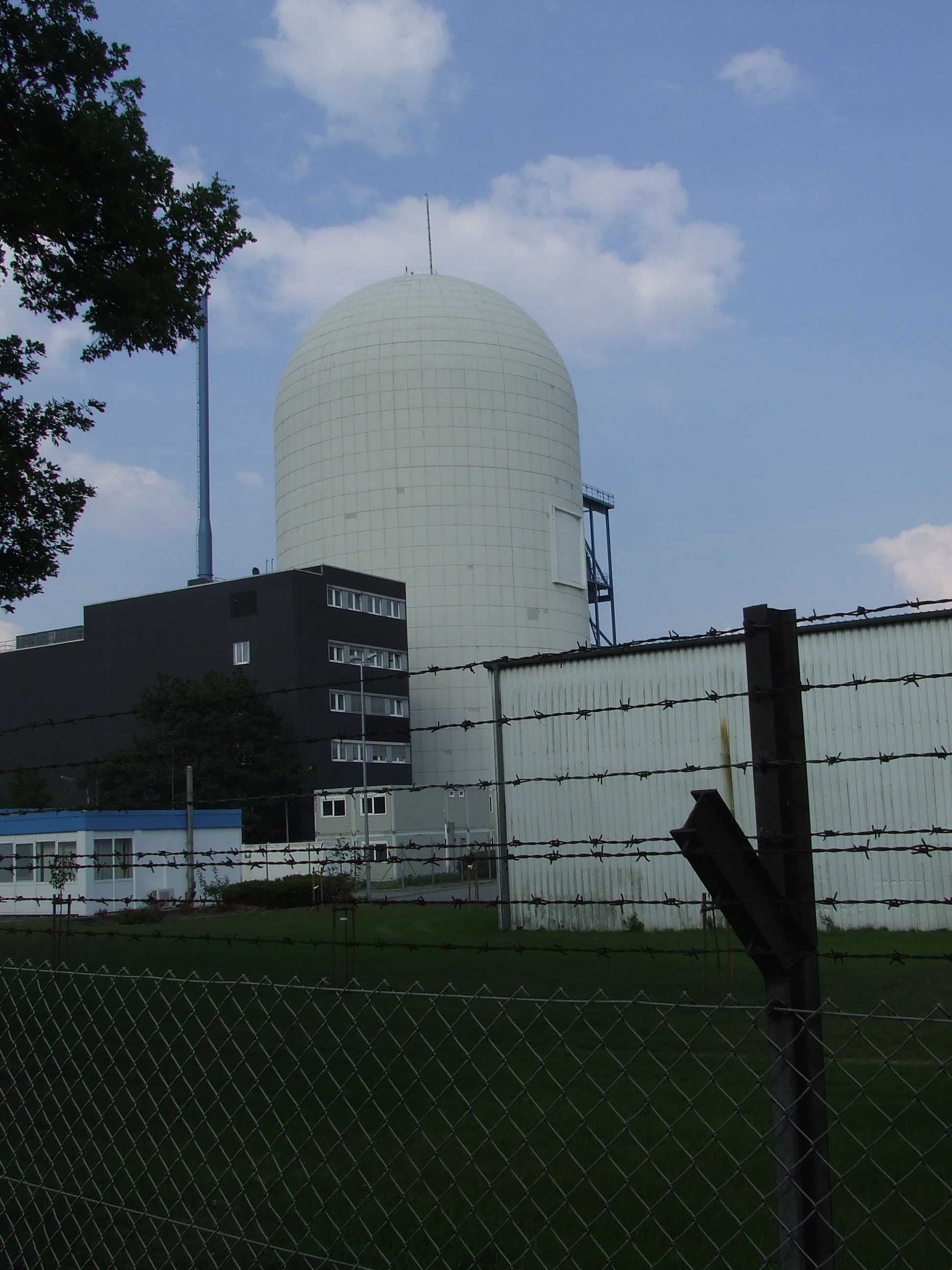 Lingen Nuclear Power Plant